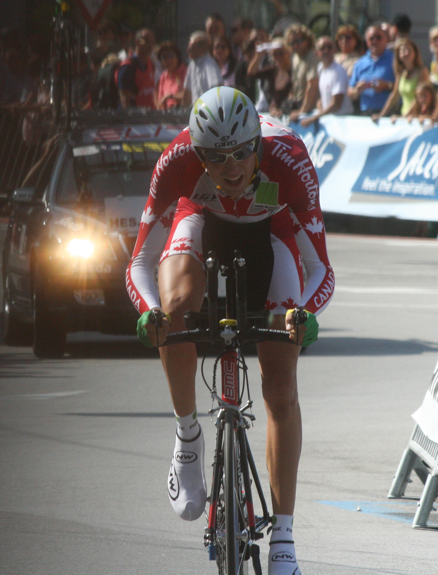 Ryder Hesjedal (Canada) at the UCI Road World Championships 2006 in Salzburg, September 2006